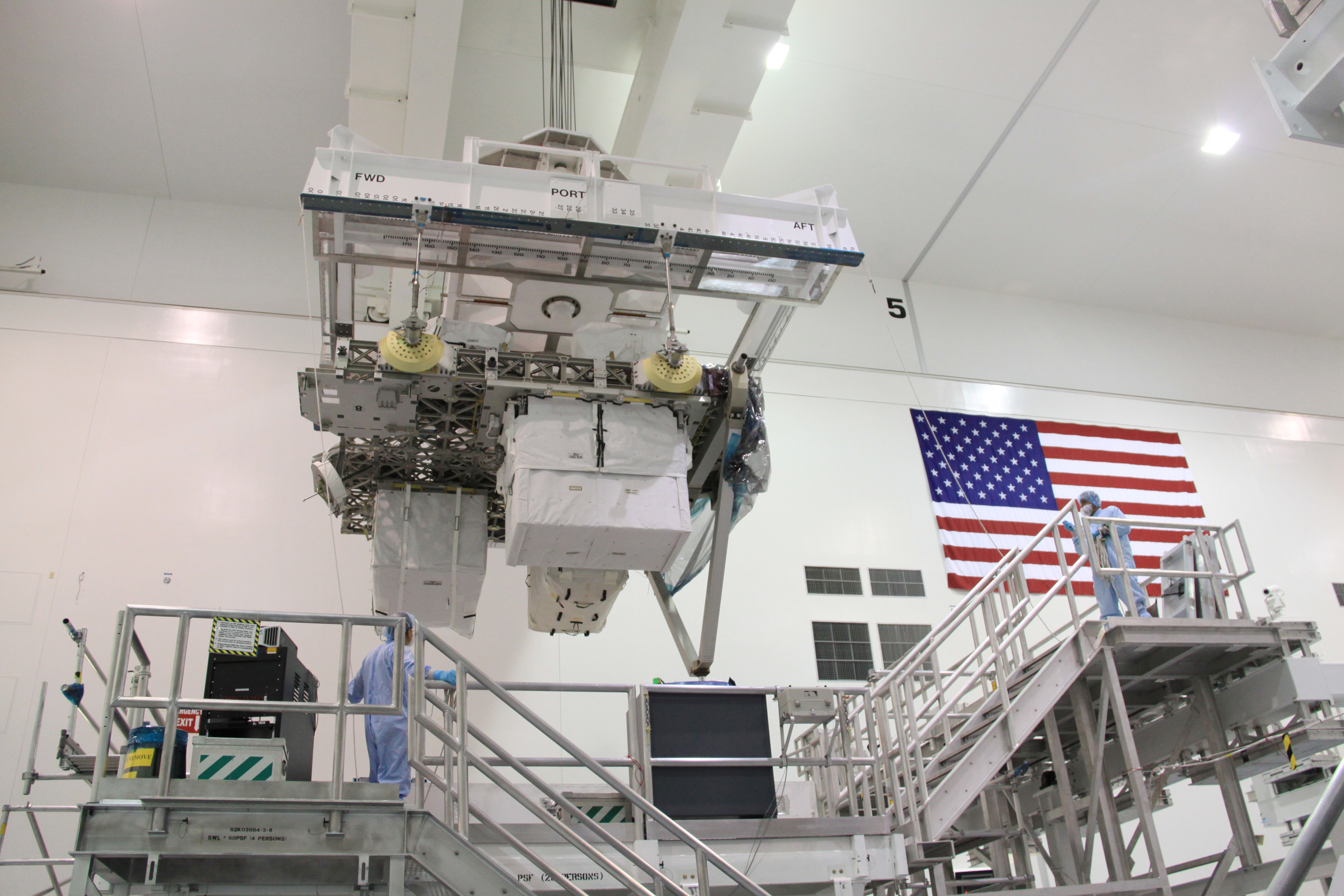 CAPE CANAVERAL, Fla. - In the Space Station Processing Facility at NASA's Kennedy Space Center in Florida, a worker monitors the lift of the Express Logistics Carrier-1, or ELC-1, from its work stand. Next, the payload will be secured in a transportation canister for its trip to Launch Pad 39A, where it will be installed in space shuttle Atlantis' payload bay. The carrier is part of the payload for Atlantis' STS-129 mission to the International Space Station. The STS-129 crew will deliver two spare gyroscopes, two nitrogen tank assemblies, two pump modules, an ammonia tank assembly and a spare latching end effector for the station's robotic arm. Launch is targeted for Nov. 16. For information on the STS-129 mission objectives and crew, visit